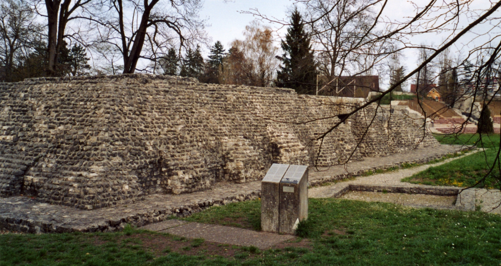 Temple at Augusta Raurica. Photo by Traroth under GFDL.